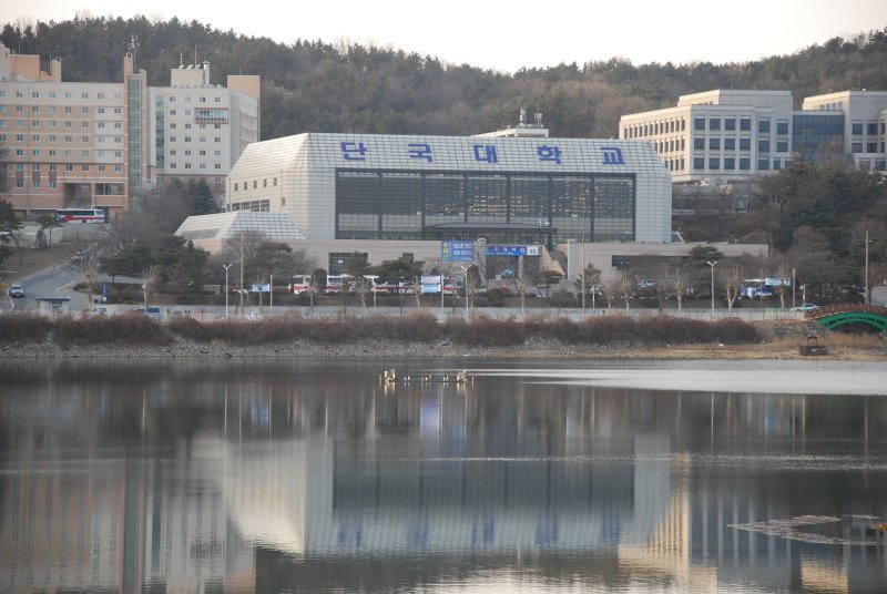 Dankook University, Cheonan Campus(Lot Area: 658,953㎡ or more) & anseoho lake(Lake Area:33ha or more)